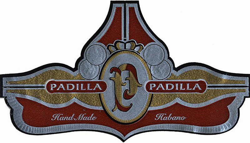 scan of old version of Padilla Habano cigar band